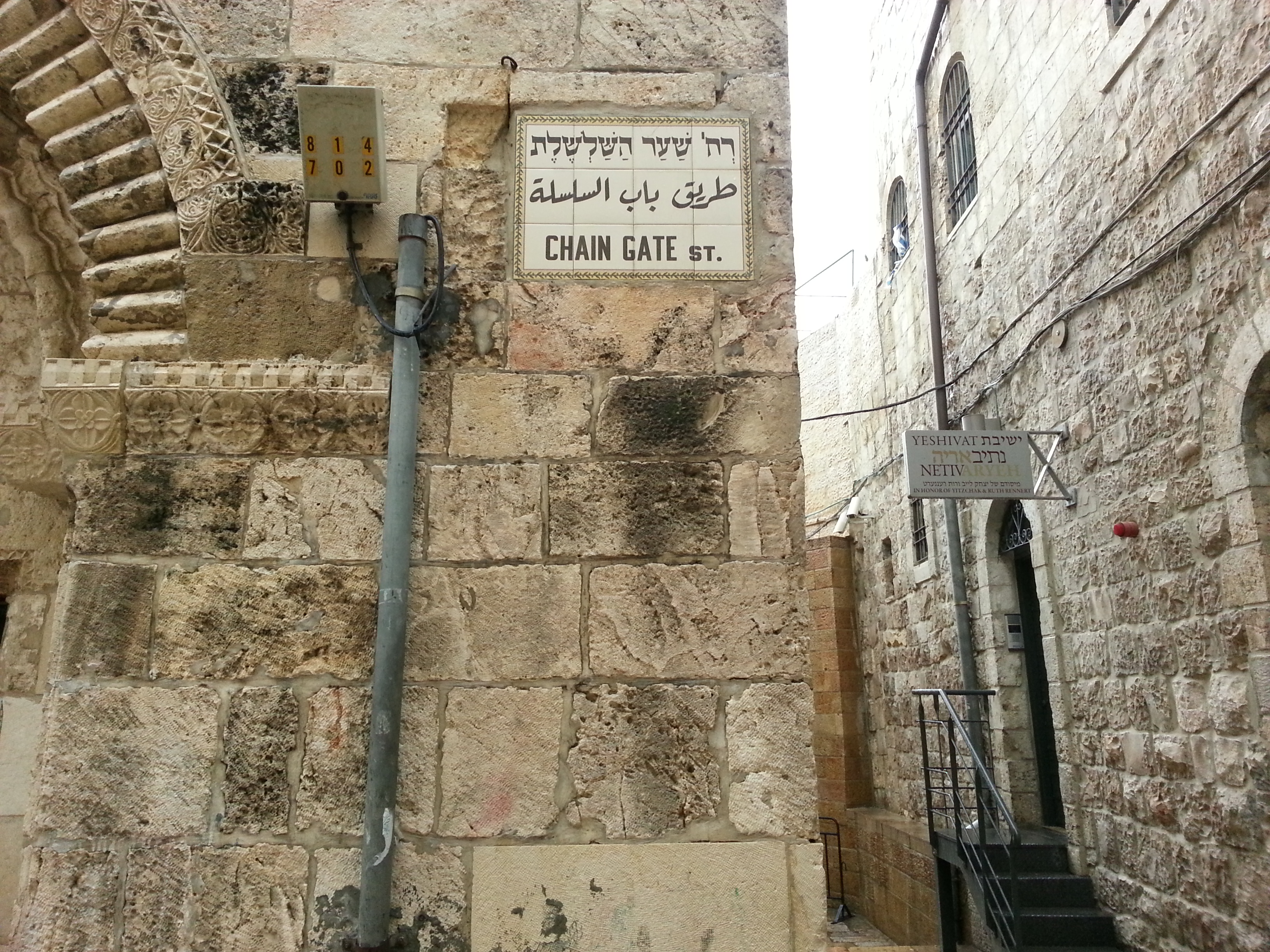 Old Jerusalem, Yeshivat Netiv Aryeh. Address: One Hakotel Street Old City, Jerusalem, at the corner with Chain Gate street